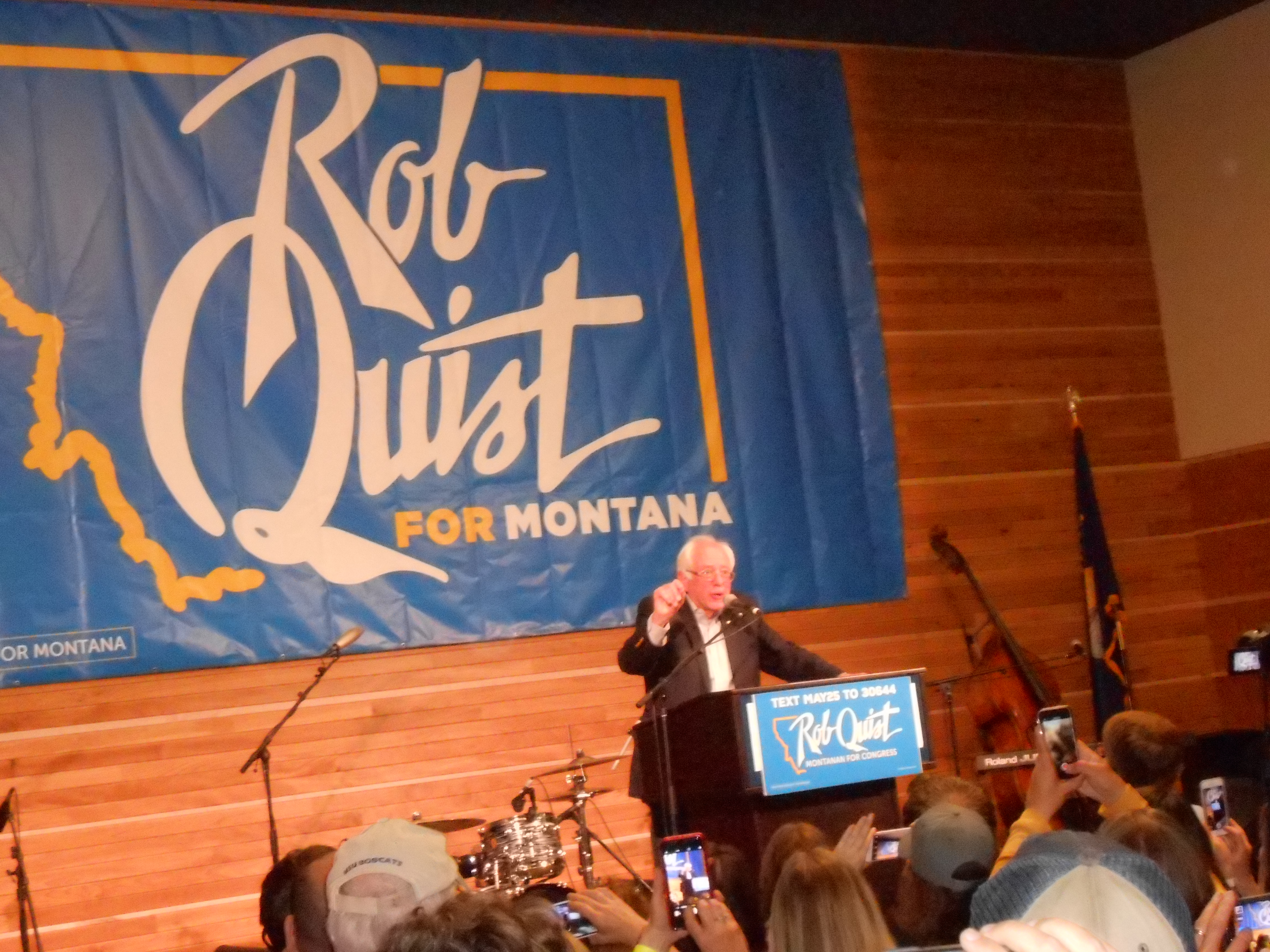 Rob Quist appears with Senator Bernie Sanders at a campaign rally, Strand Union Building ballroom, Bozeman Montana, Sunday, May 21, 2017